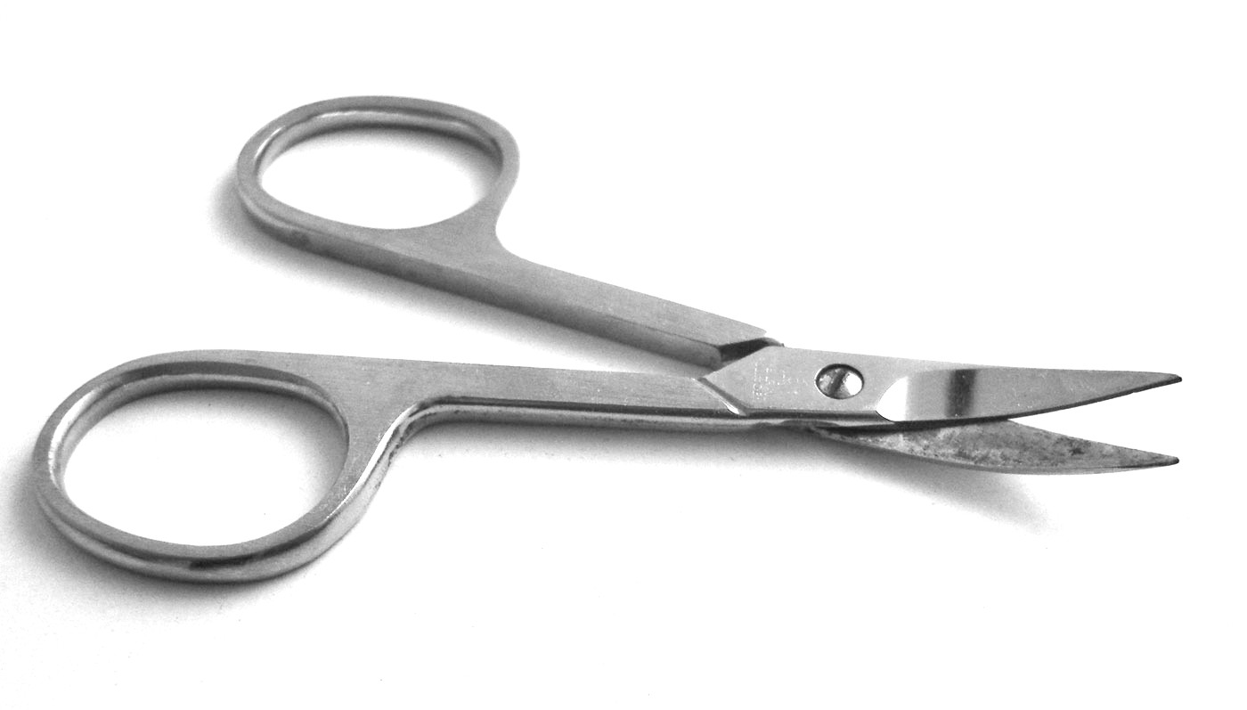 nail scissors